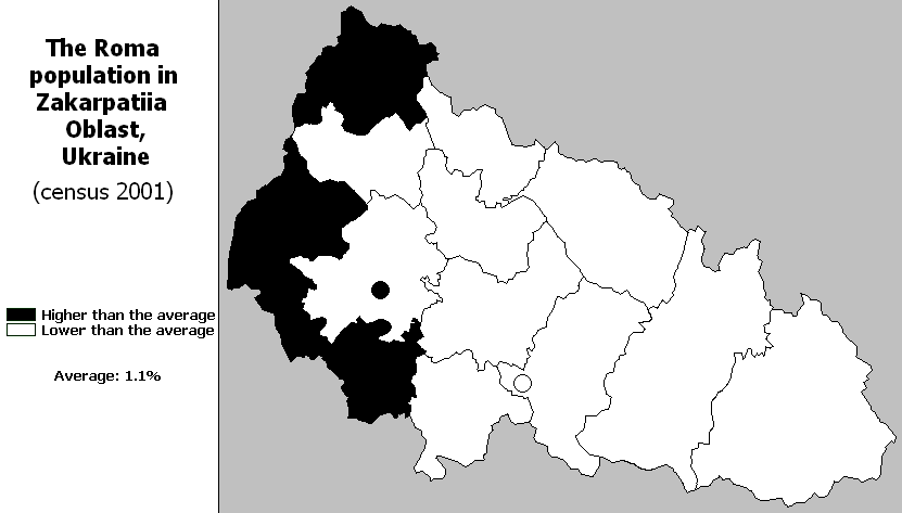 Roma minority in Transcarpathia, Ukraine